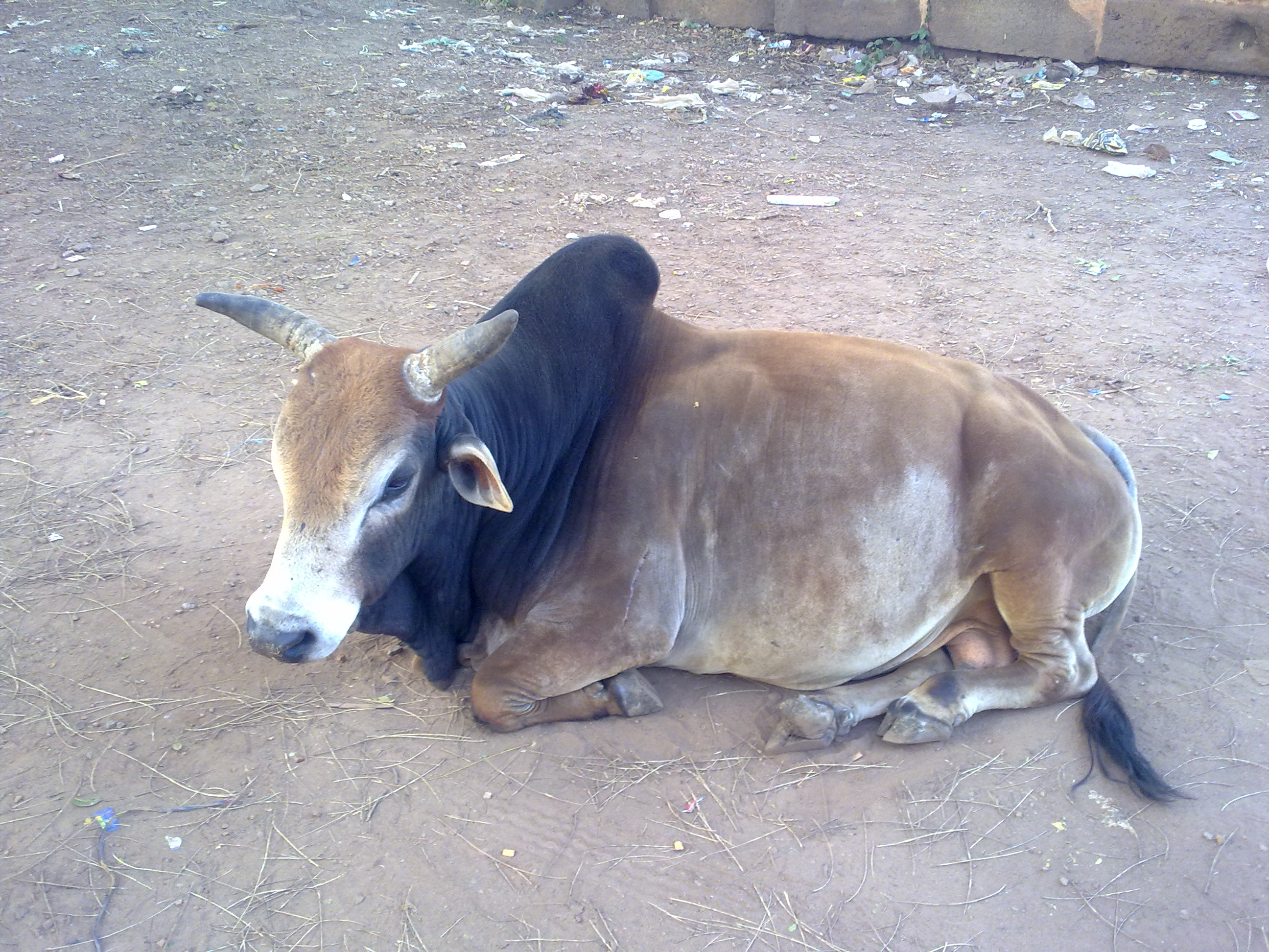 This illustration depicting An Ox, A bull of Odhisha State.